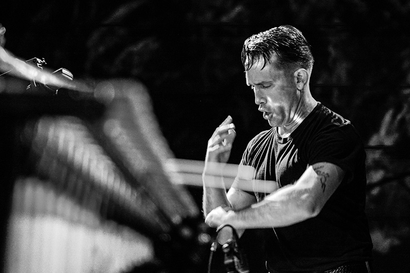 Jamie Stewart at Aarhus Festival, Denmark 2017